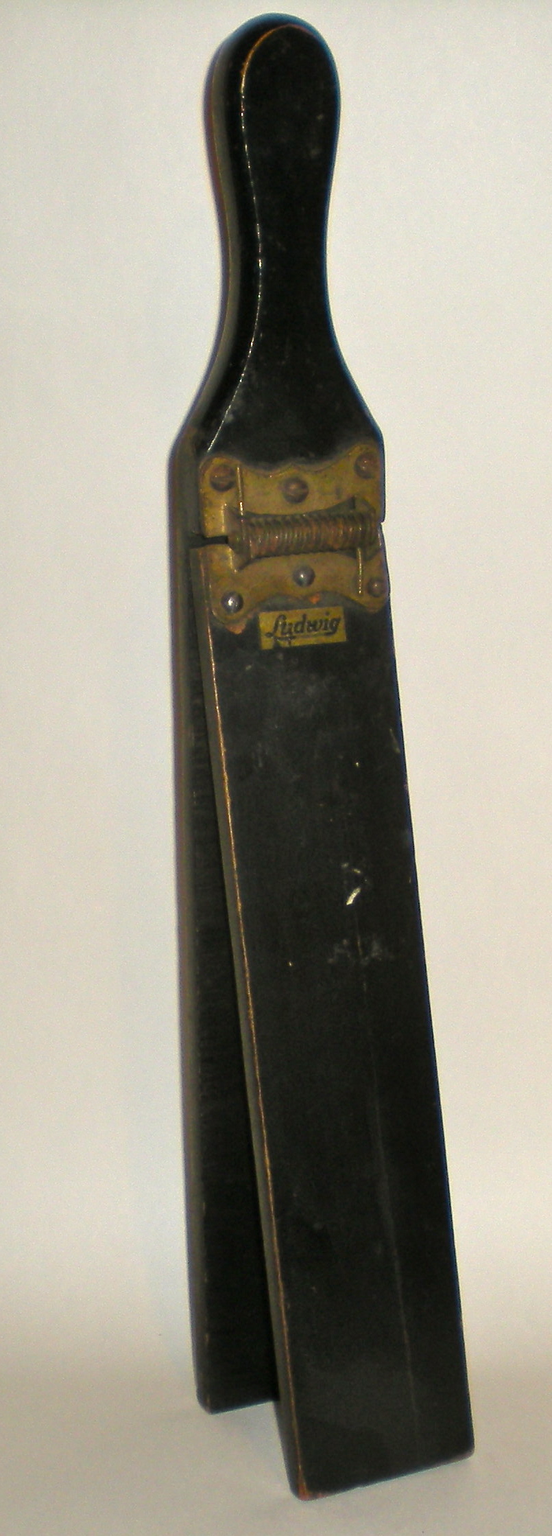 A musical slapstick manufactured by instrument maker Ludwig)